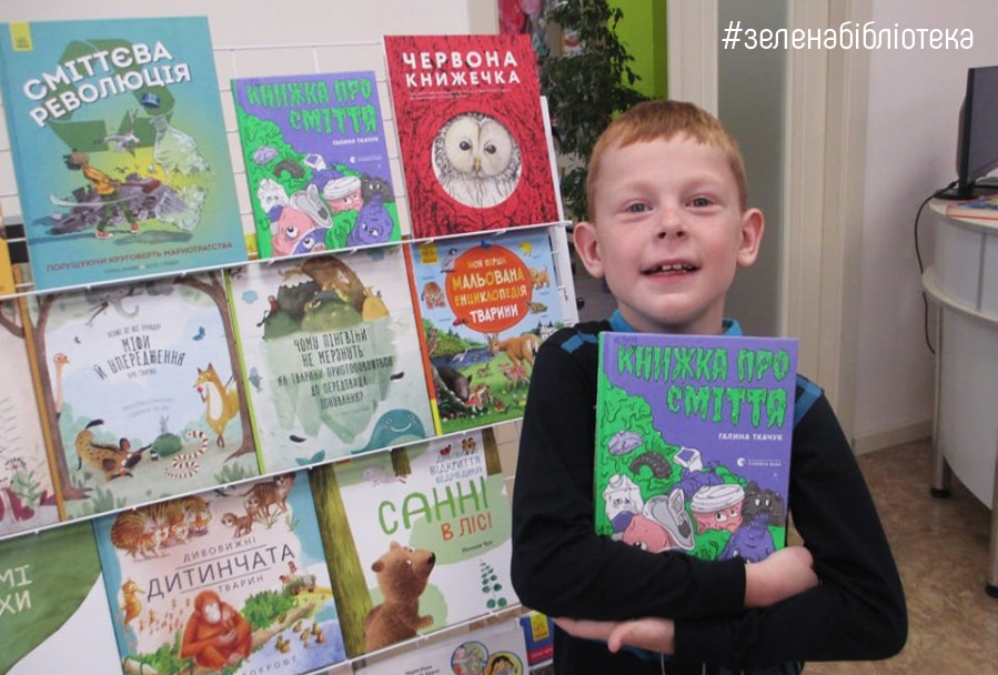 Ecological books